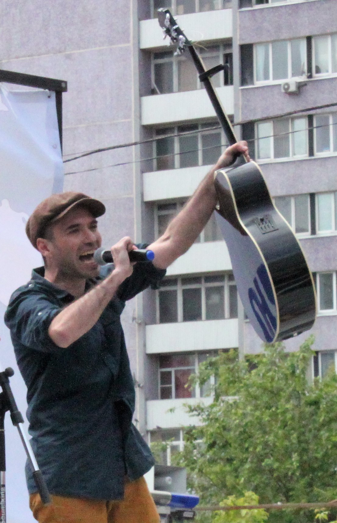 Kirill Medvedev in Moscow on June 10 in a rally "For a free Russia without repression and despotism".